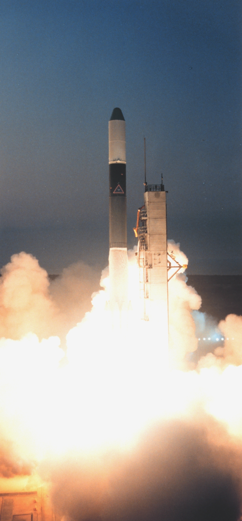 The launch of GOES-B aboard Delta Launch Vehicle 131.